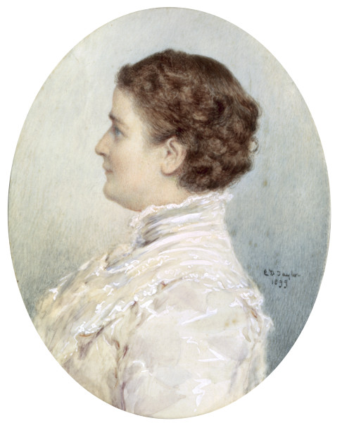 Ida Saxton McKinley, wife of US President William McKinley